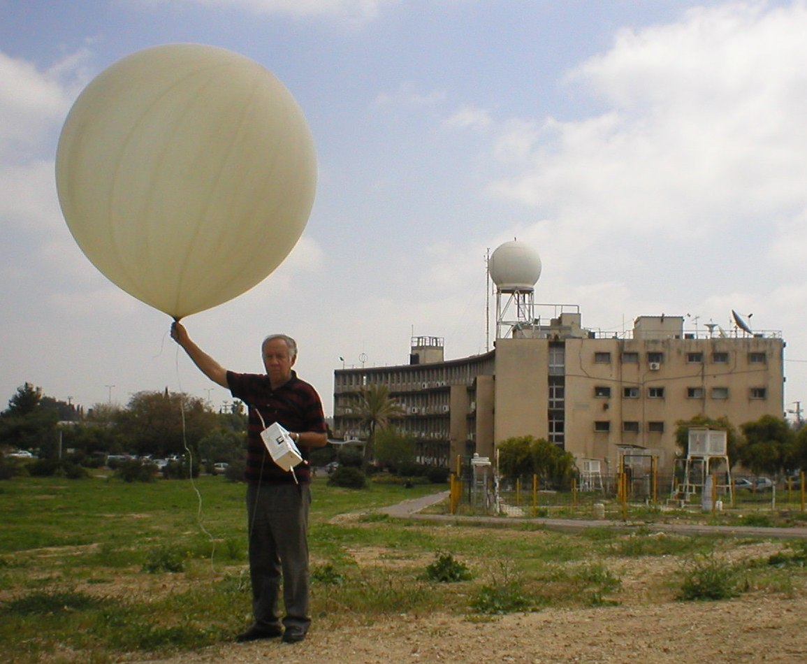 A meteorological balloon to which a radiosonde is attached